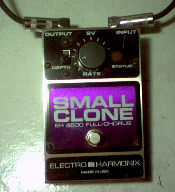 The picture shows the top of the pedal, wich is off. The footswitch is the big metallic button on the bottom, while the big black round control is the rate control. On the left of the rate control, is the depth button, witch allows the user to chose between two sounds. On the right is the status led, witch is of, meaning that the effect is disabled (the pedal is in bypass mode) The metallic tubes on top ar two L shaped jack cables plugged into the pedal.